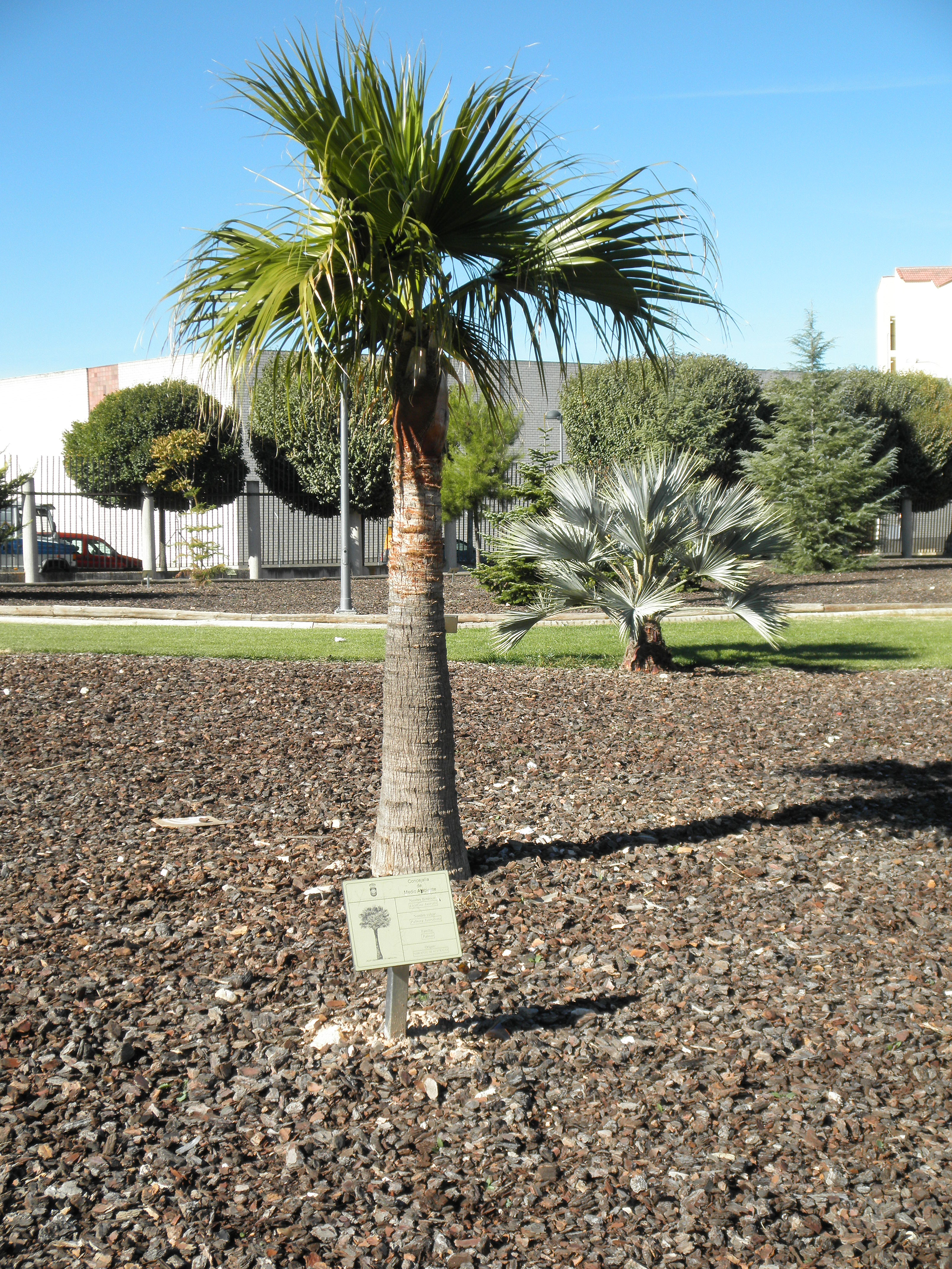 Livistona australis habit, Parque El Pilar de Ciudad Real, Spain